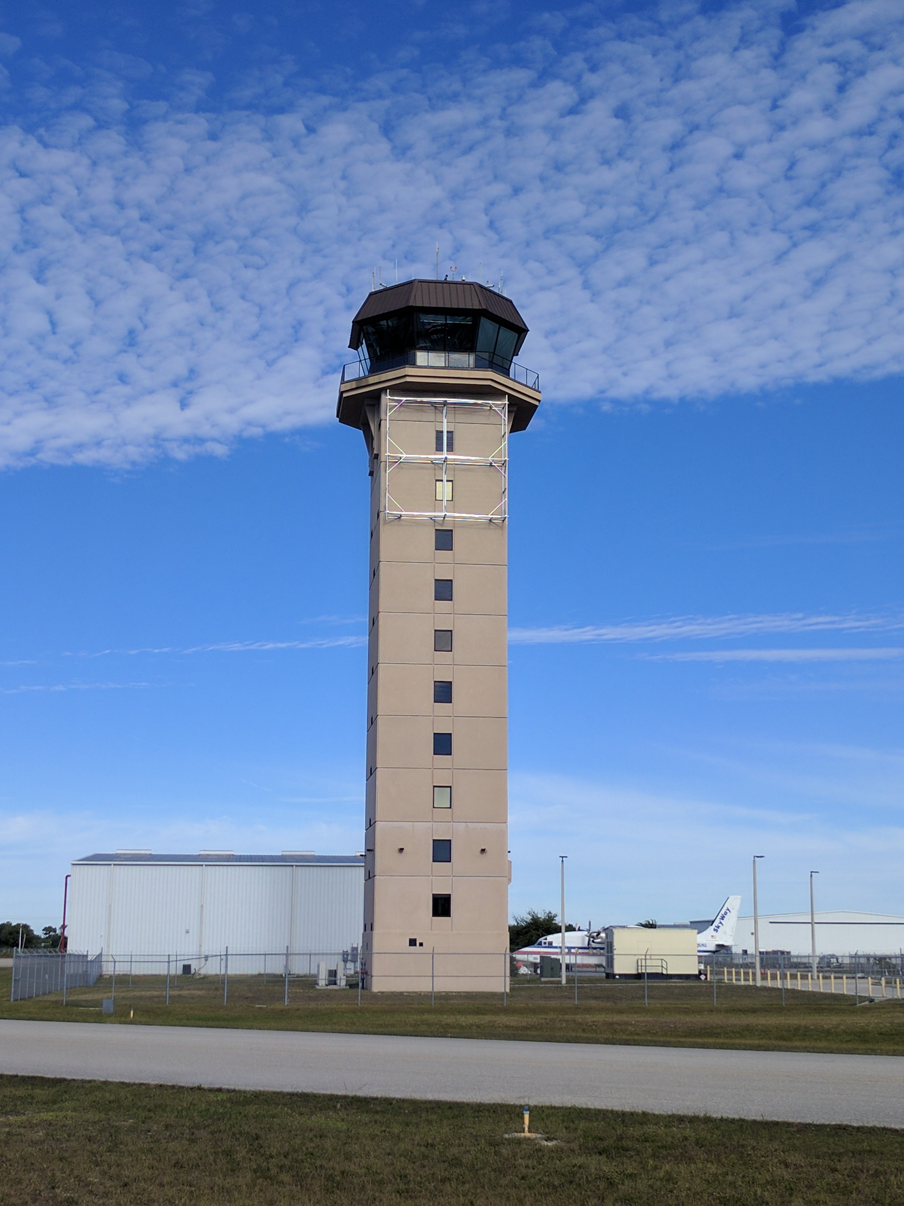 The air traffic control tower at Punta Gorda Airport in Florida. Taken from the parking lot near the car rental building.